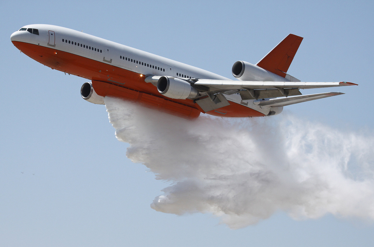 FireIce being dropped from a plane.